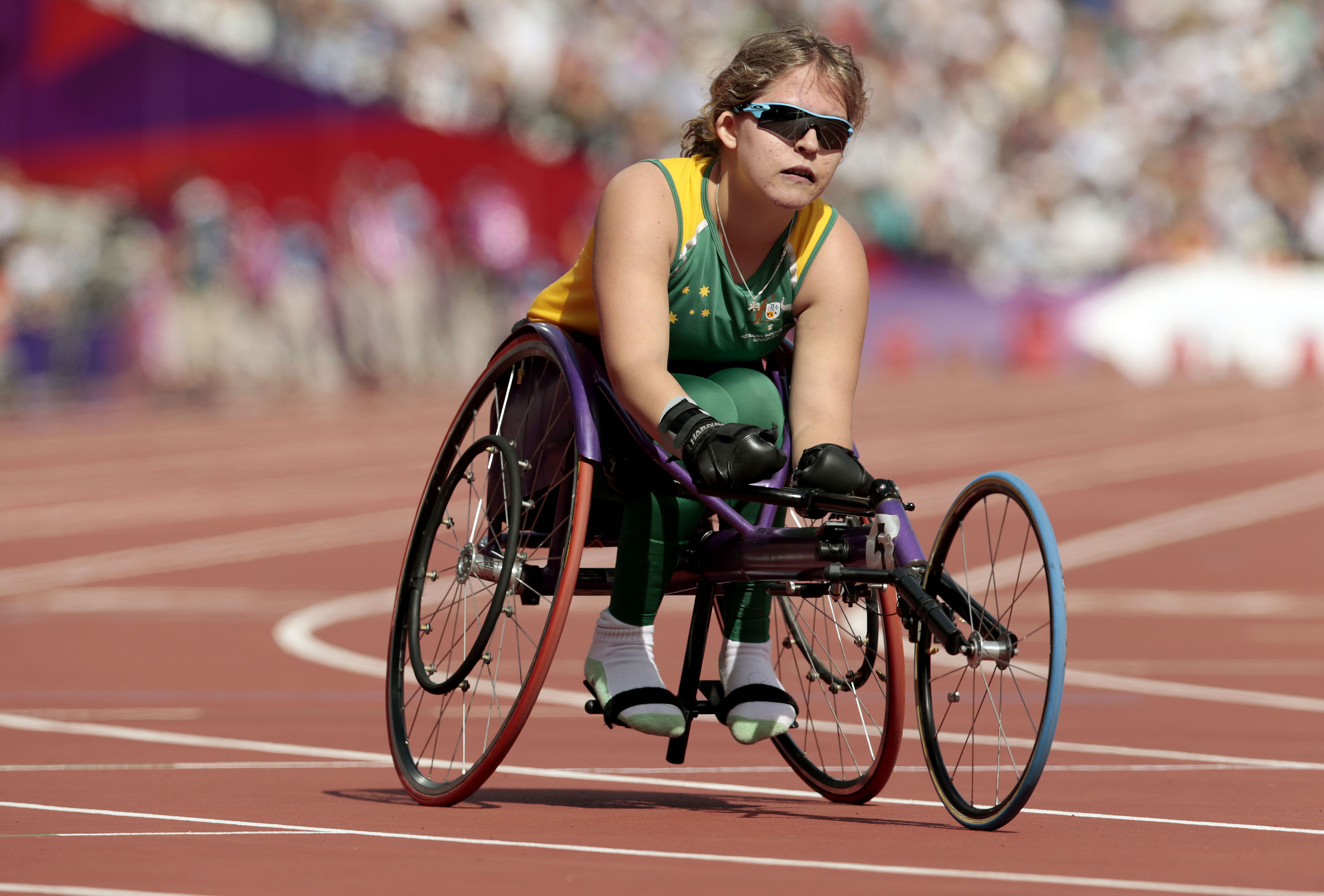 Photograph of Australian Paralympic team member Kristy Pond at the 2012 Summer Paralympic Games in London